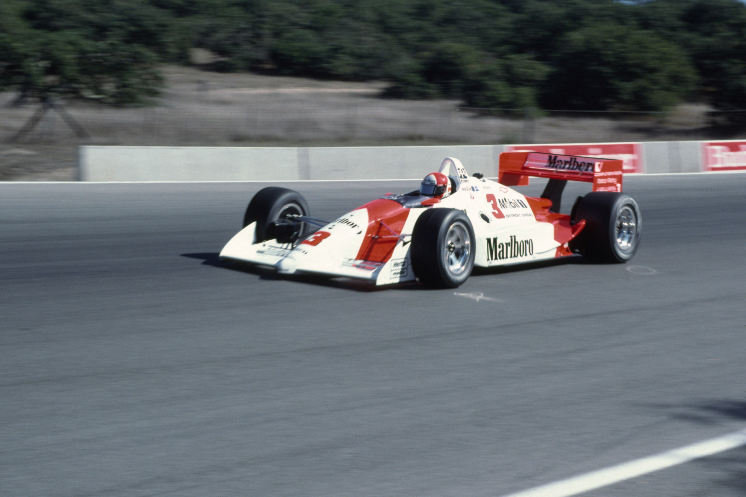 Rick Mears' IndyCar at Laguna Seca 1991. Scanned from Kodachrome 64 slide.Mears At Monterey 1991